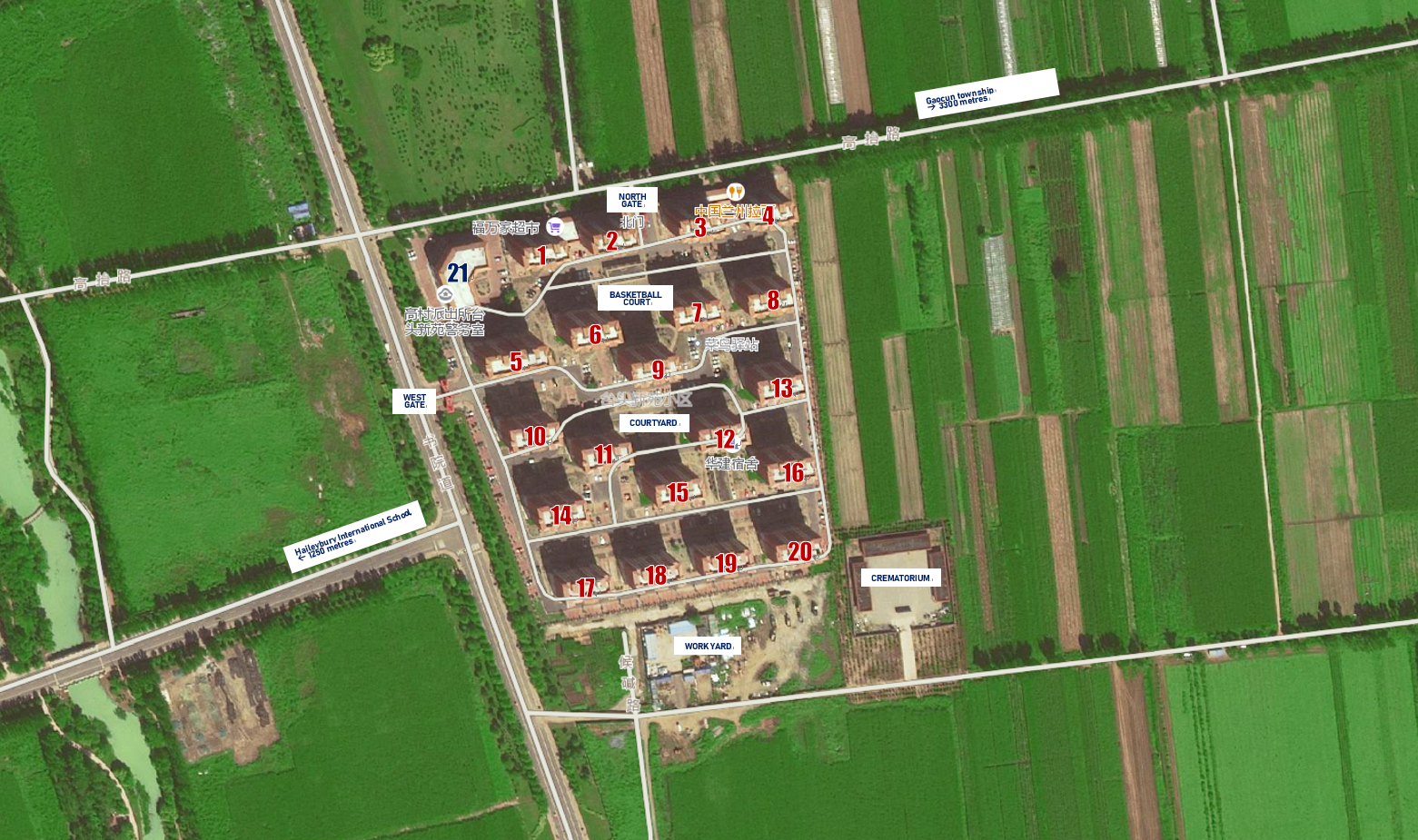 Annotated map of Taitou residential compound and the surrounding area